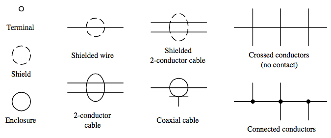 own work